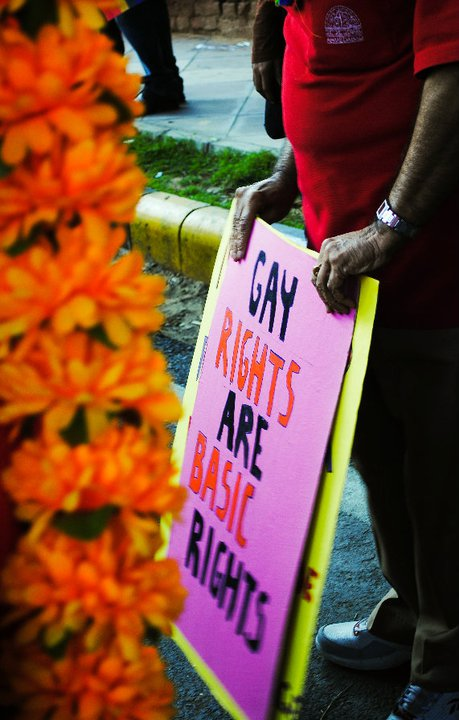 This is an image from the Queer pride parade held in Delhi in 2010.